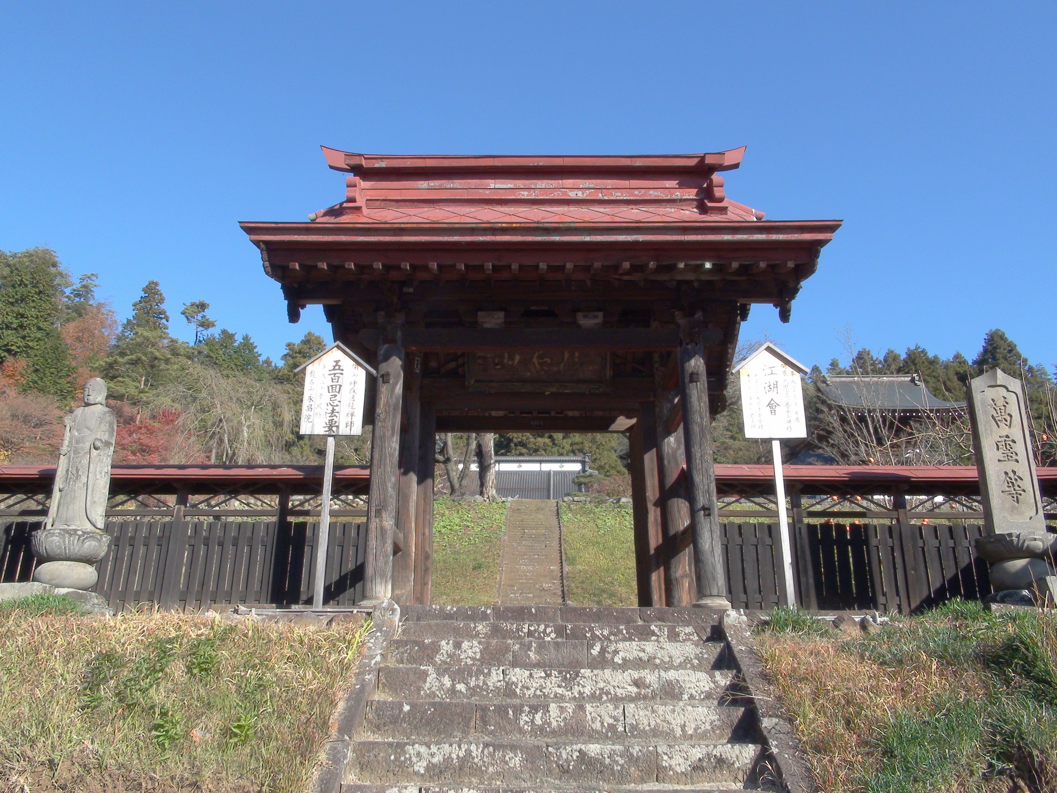 The main gate of a Buddhist temple Eishoin Yamanashi city